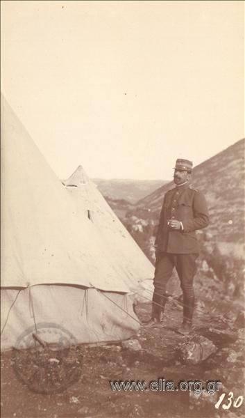 Greek major Nikolaos Vlahopoulos (in a future General Lieutenant) at the front of Epirus